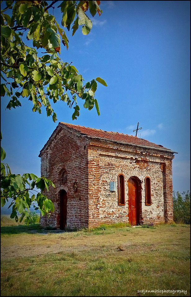 Church of St. John in Orljane, Serbia, Europe